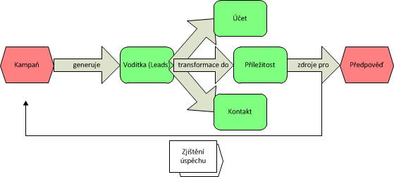 Standard CRM scheme